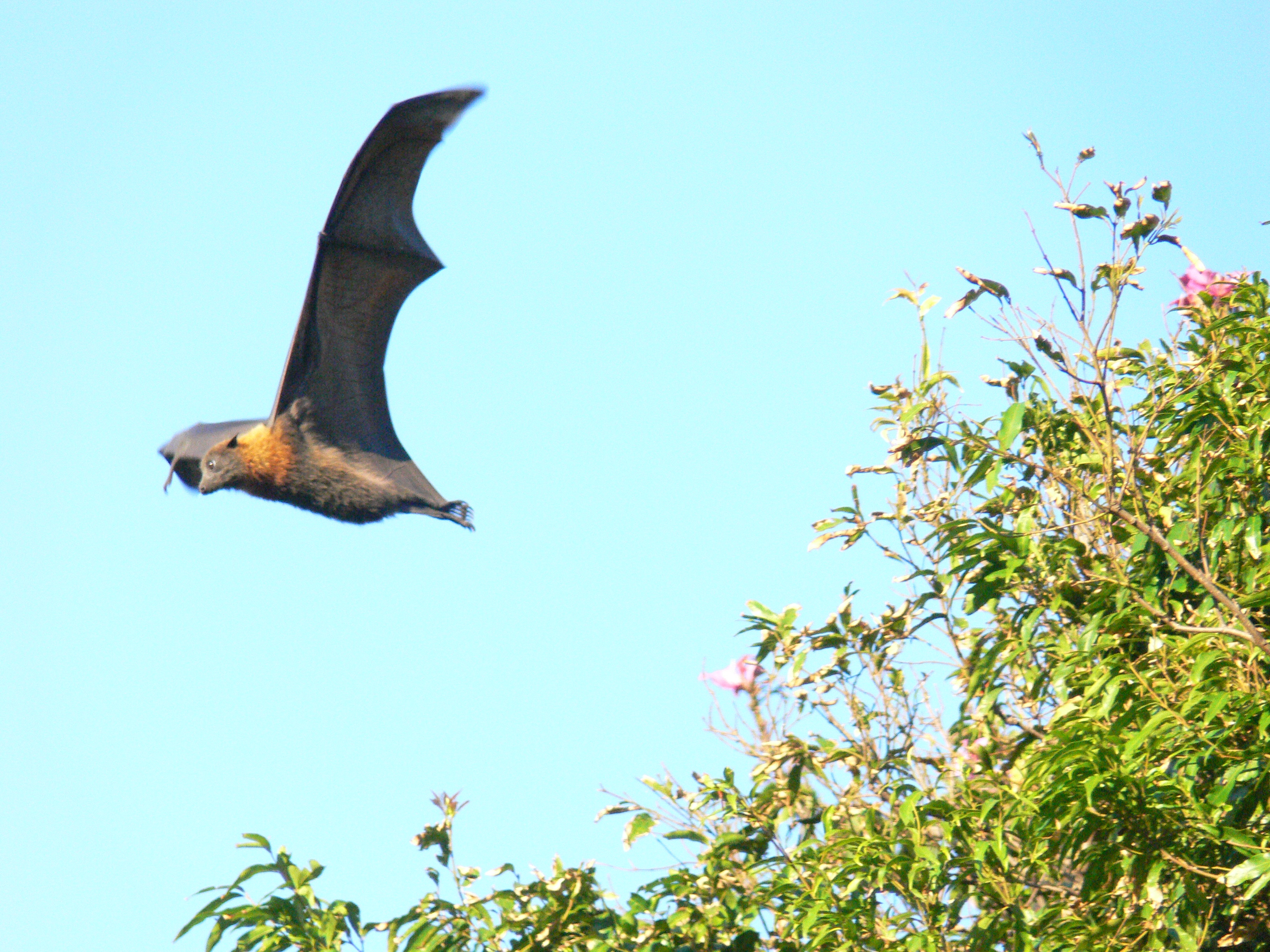 Flying fox at the Royal Botanic Gardens, Sydney, Australia